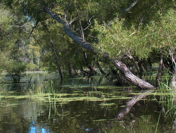 taken from A Looking Glass Sanctuary